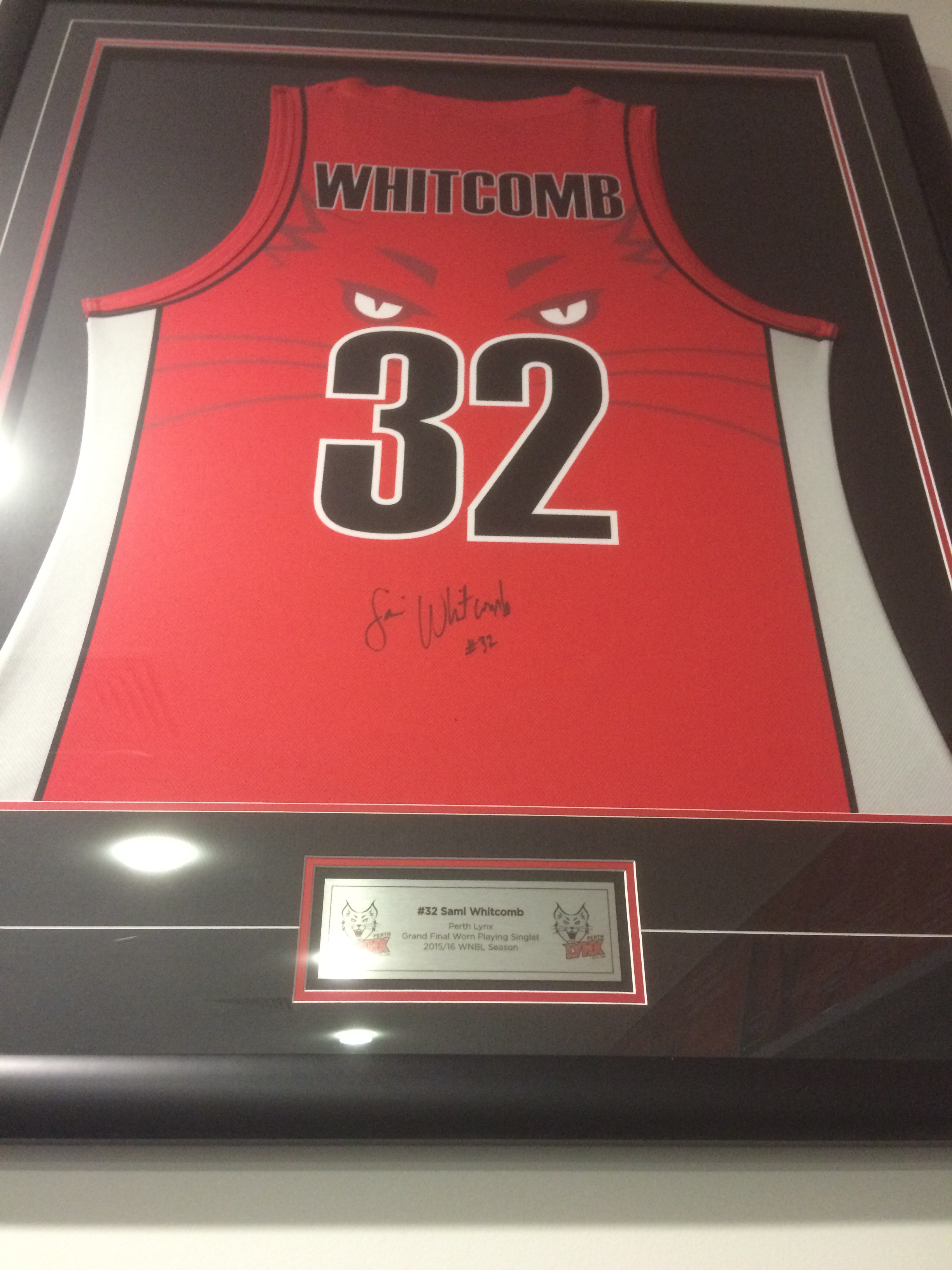 Sami Whitcomb’s worn singlet from the 2016 WNBL Grand Final